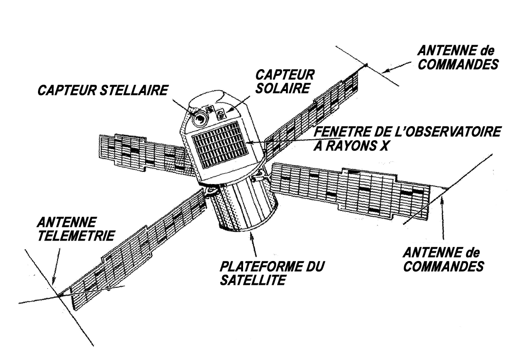 Drawing of the X-ray space telescope Uhuru of the NASA (french labels)